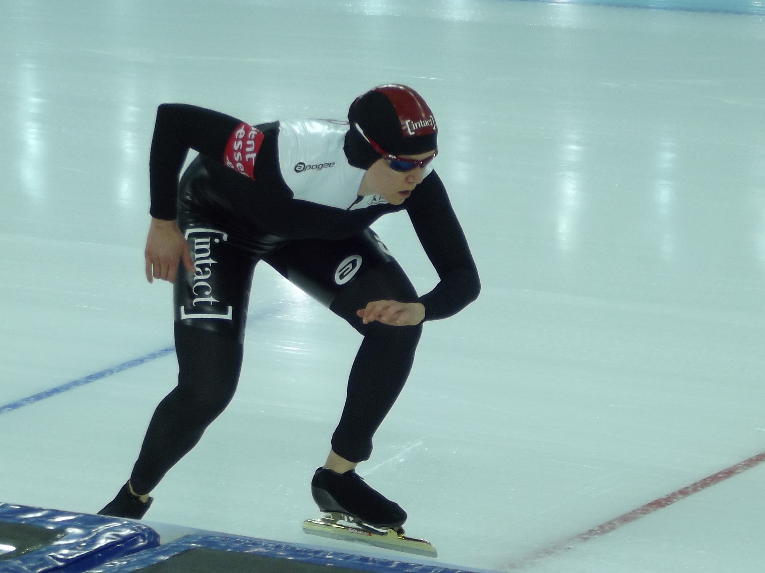 2013 World Single Distance Speed Skating Championships